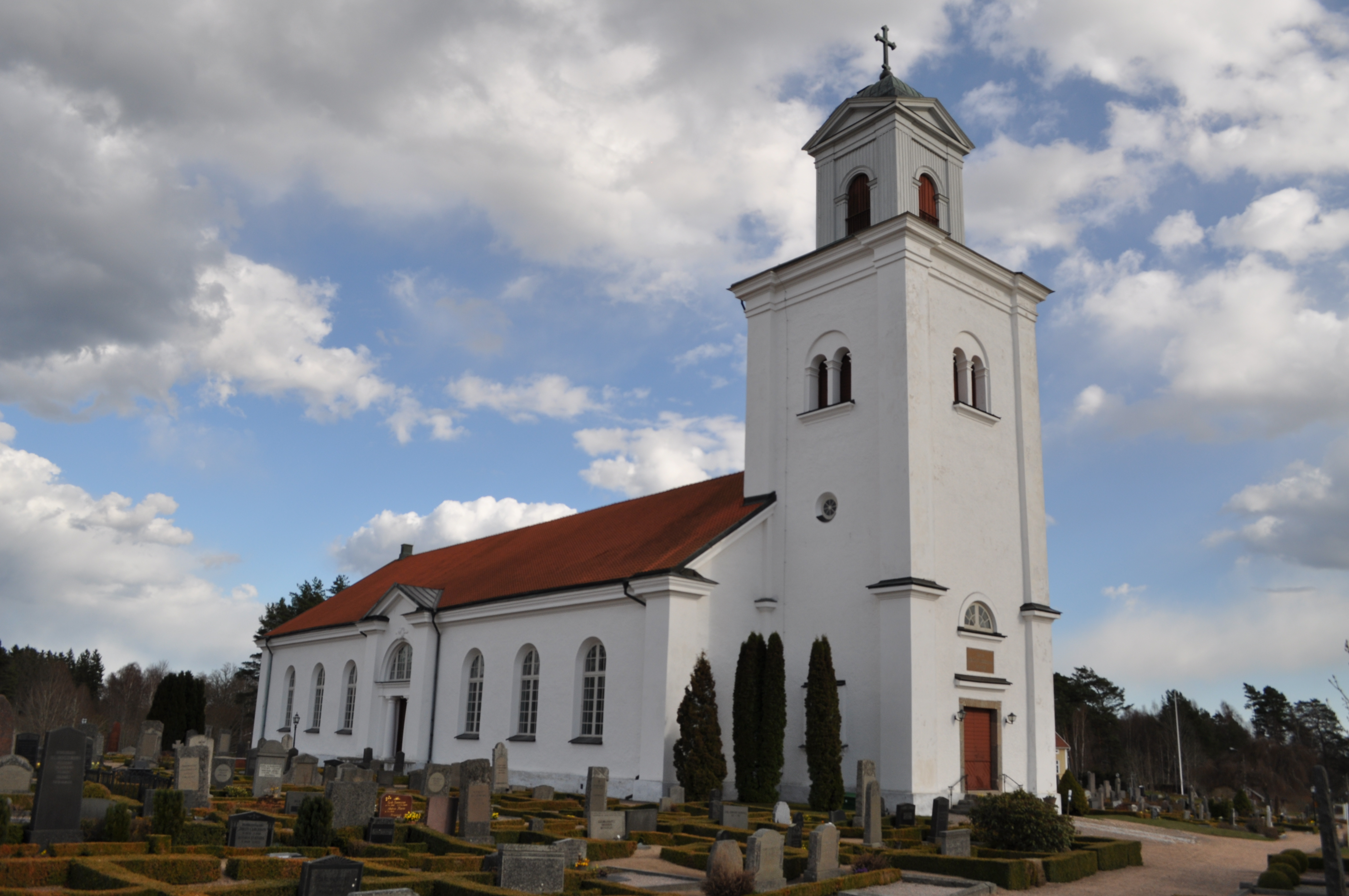 Tvings Church- kyrka